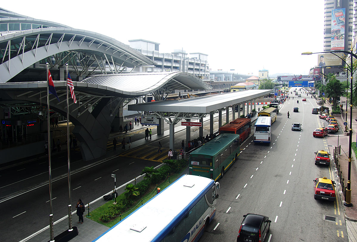 Johor Bahru - Train station